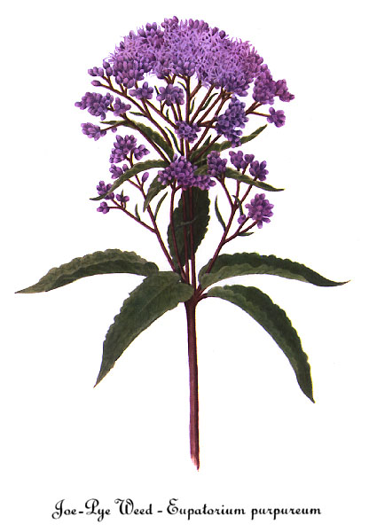 Watercolor painting of Eupatorium_purpureum.